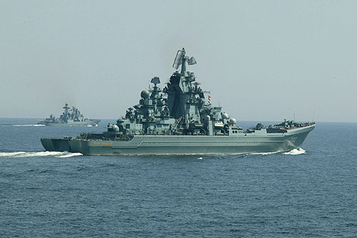 KALININGRAD REGION. Tactical exercises of the Baltic and Northern Fleets.